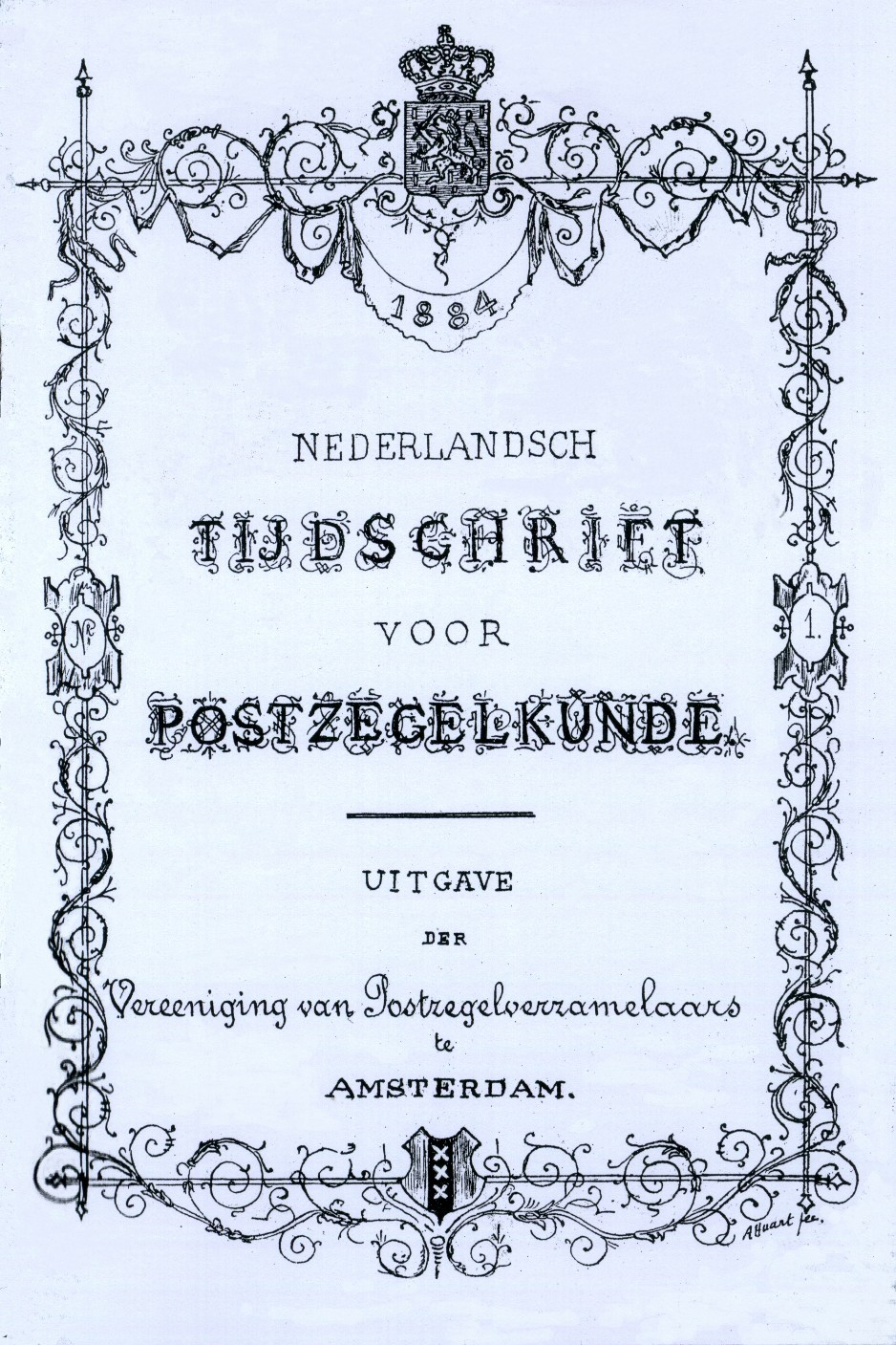 Old Dutch philatelic magazine